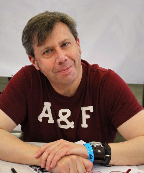 Comics creator Carlos Pacheco at the 2013 Wizard World New York Experience.